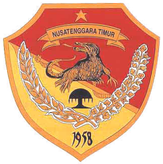 Coat of Arms of Indonesian province of East Nusa Tenggara.